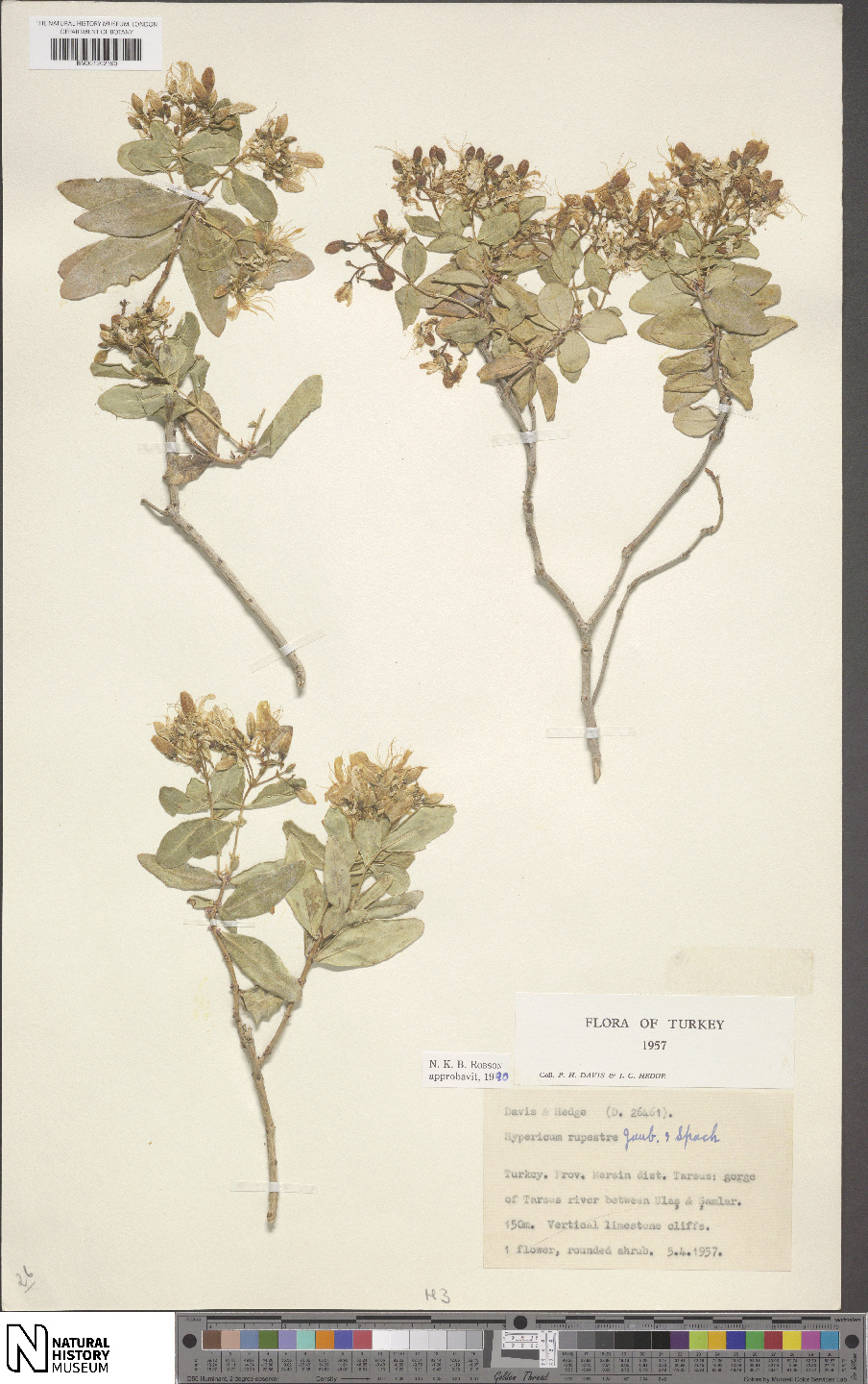 Specimen of Hypericum rupestre at the National History Museum in London